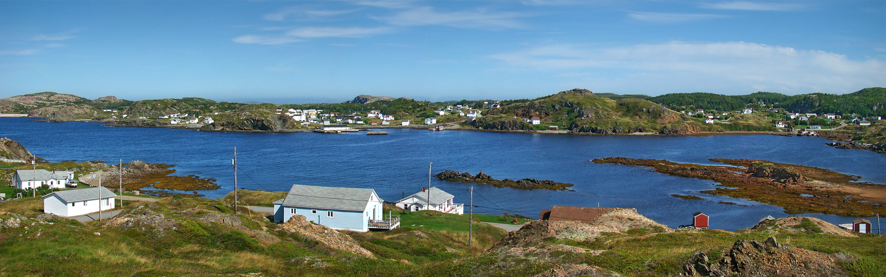 Durrell, Twillingate South Island, Central Newfoundland, Canada.